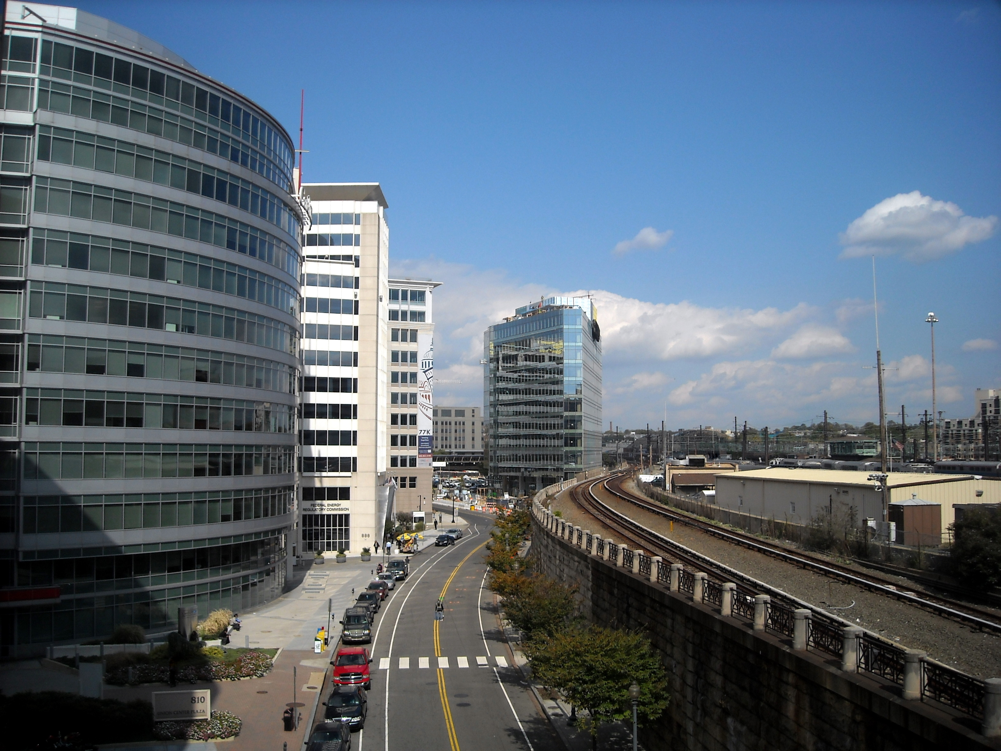 The 800–900 blocks of First Street, N.E., and rail tracks on the Washington Metro's Red Line – between the Union Station and New York Avenue stations – in the NoMa neighborhood of Washington, D.C. (Facing north from the H Street, N.E., bridge over Union Station's rail yard) The office buildings of CareFirst Blue Cross and Blue Shield, the Federal Energy Regulatory Commission, 77 K Street, N.E., and 111 K Street, N.E., are visible in the background.